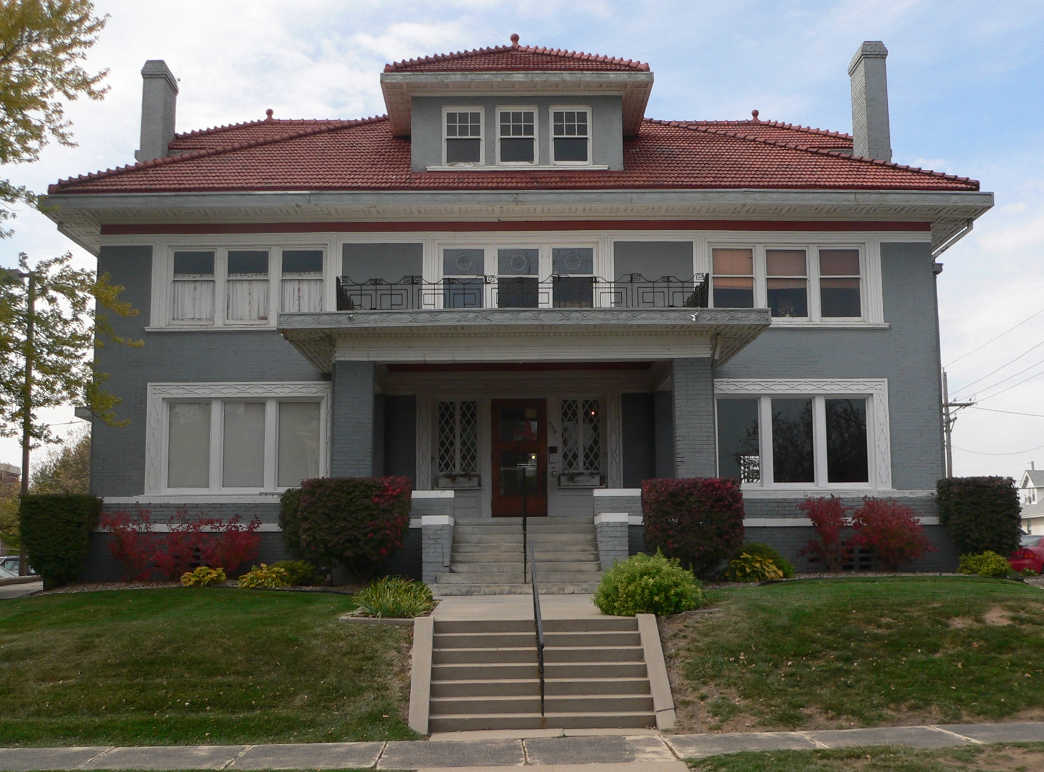 Bradford-Pettis House, located at southwest corner of 39th Street and Harney in Omaha, Nebraska; seen from the east.